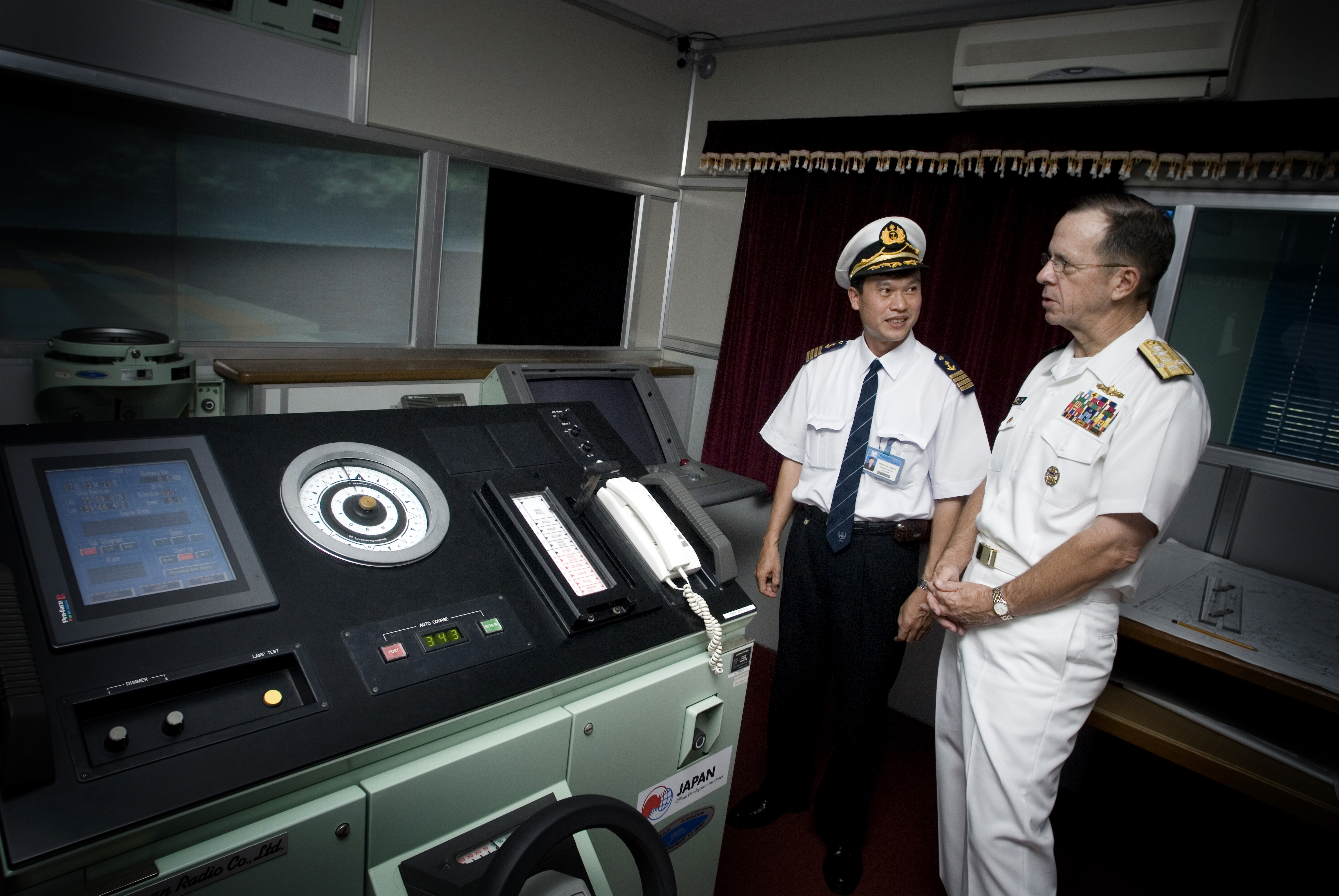 Chief of naval operations, Adm. Mike Mullen, receives a tour of a ship simulator from Vietnamese maritime university vice president, Dinh Xuan Mahn. Mullen is wrapping up a seven-day trip to Japan and Vietnam to visit with foreign leaders and Sailors stationed in the region. Unit: Navy Media Content Services